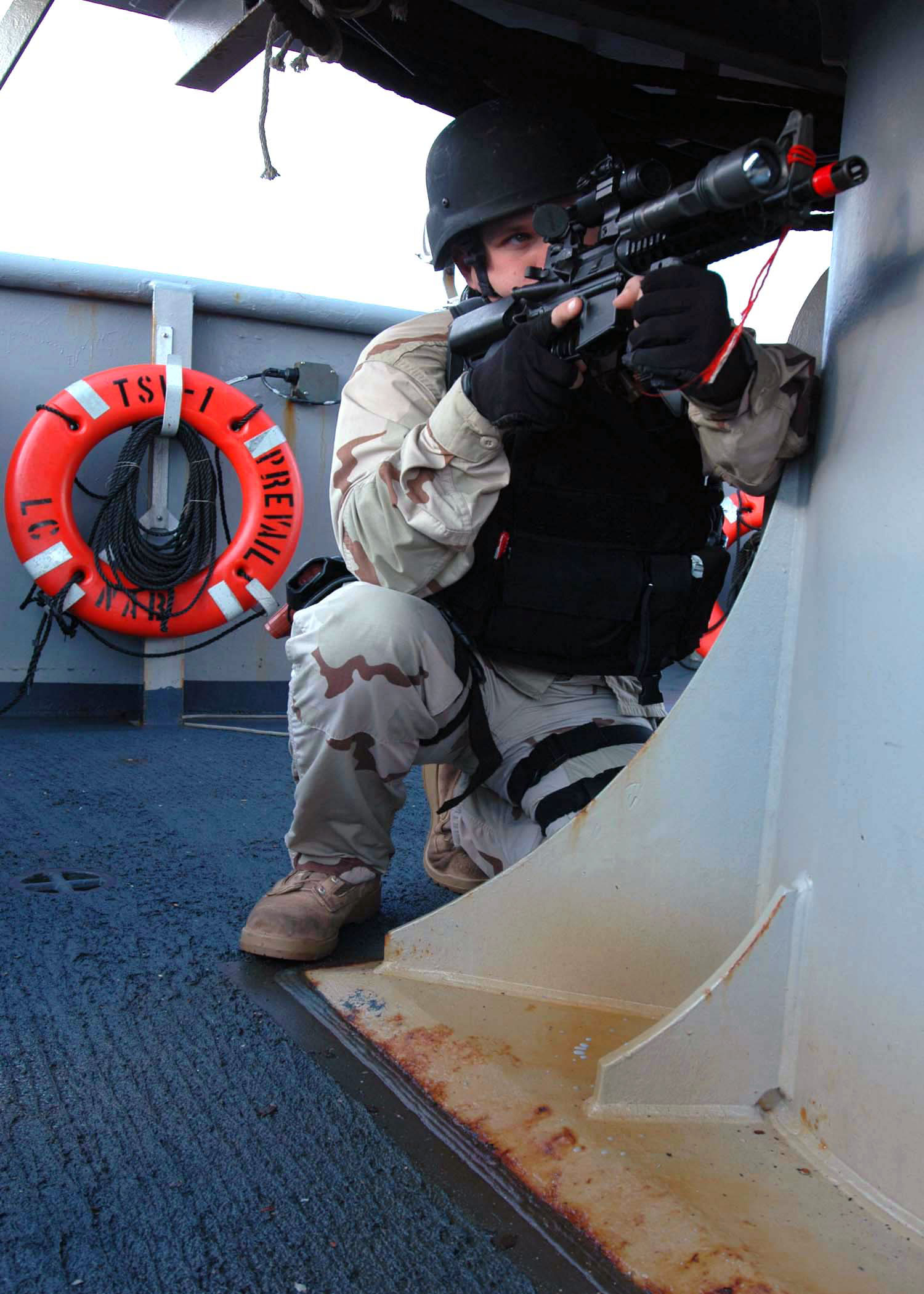 071209-N-2838W-137 ATLANTIC OCEAN (Dec. 9, 2007) Chief Yeoman Christopher Chady, a member of guided-missile cruiser USS Philippine Sea (CG 58) Visit, Board, Search and Seizure (VBSS) team, provides cover during a non-compliant boarding simulation aboard the training support vessel Prevail (TSV 1). Prevail offers a training environment for VBSS teams to test their maritime security operations skills. U.S. Navy photo by Mass Communication Specialist 3rd Class David Wyscaver (Released)